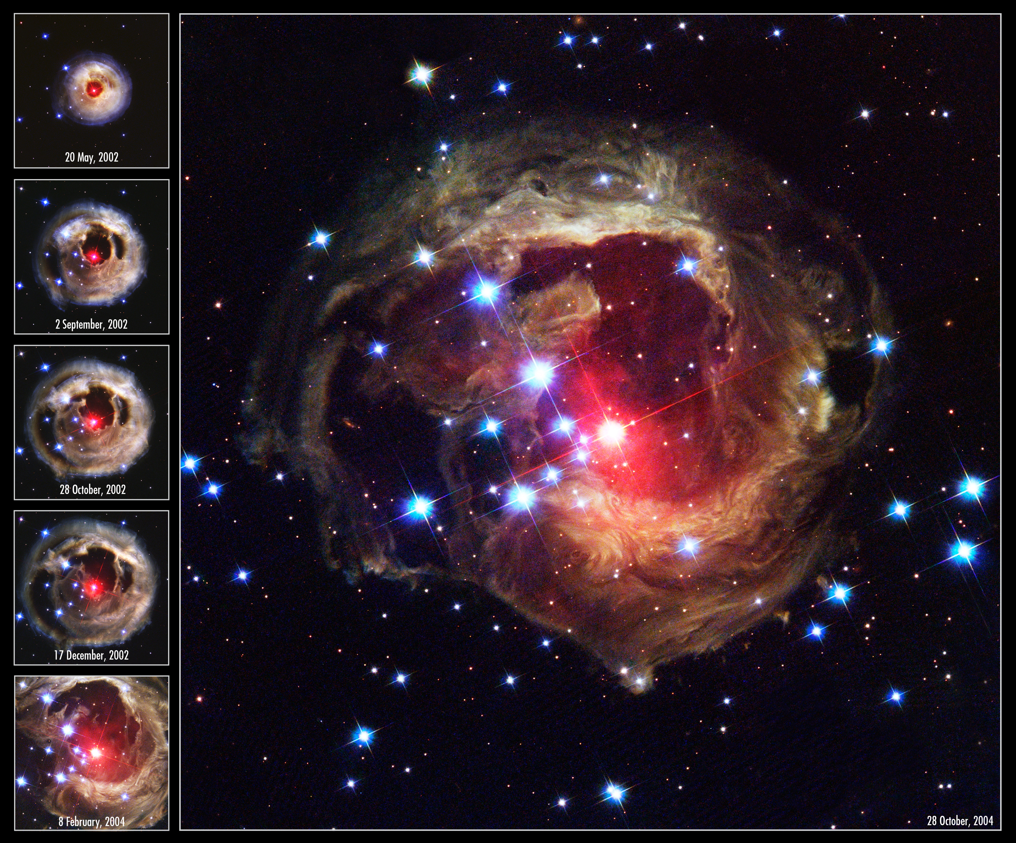 Pictures by "Hubble Space Telescope" of Star "V838 Mon" in constellation "Monocerotis". Bilder des "Hubble-Weltraumteleskops" vom Stern "V838 Mon" im Sternbild "Einhorn".